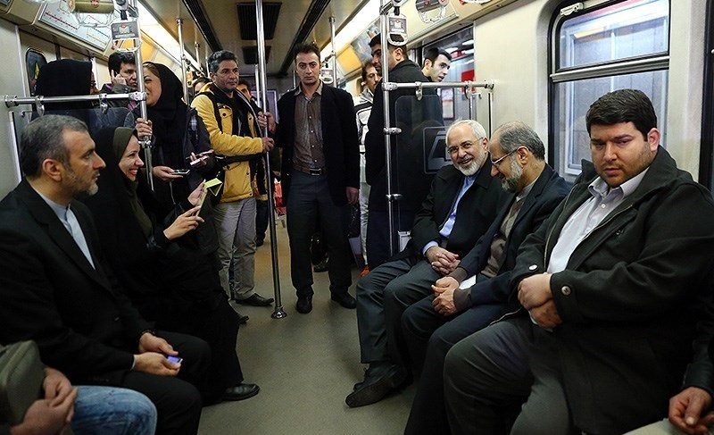 Iranian Foreign Minister, Mohammad Javad Zarif departures to his office by using metro in national healthy air day